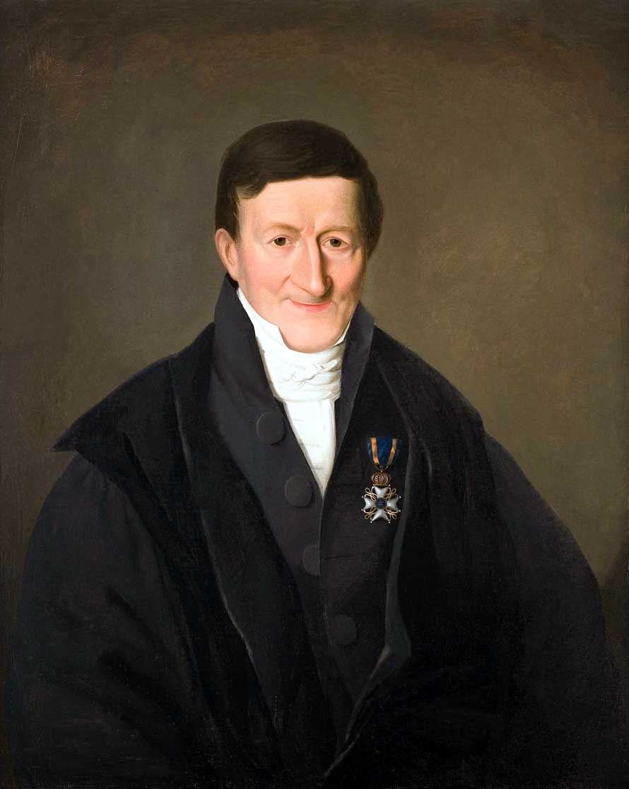 Matthias Siegenbeek (1774-1854) Dutch Reformed theologian, literary scholar and historian